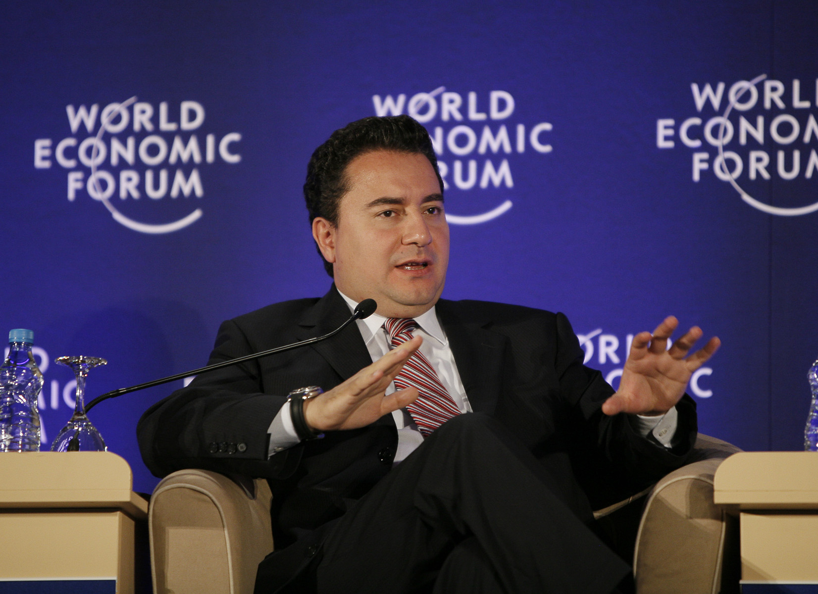 Ali Babacan, Turkish politician, at the World Economic Forum on Europe and Central Asia in Istanbul, Turkey.